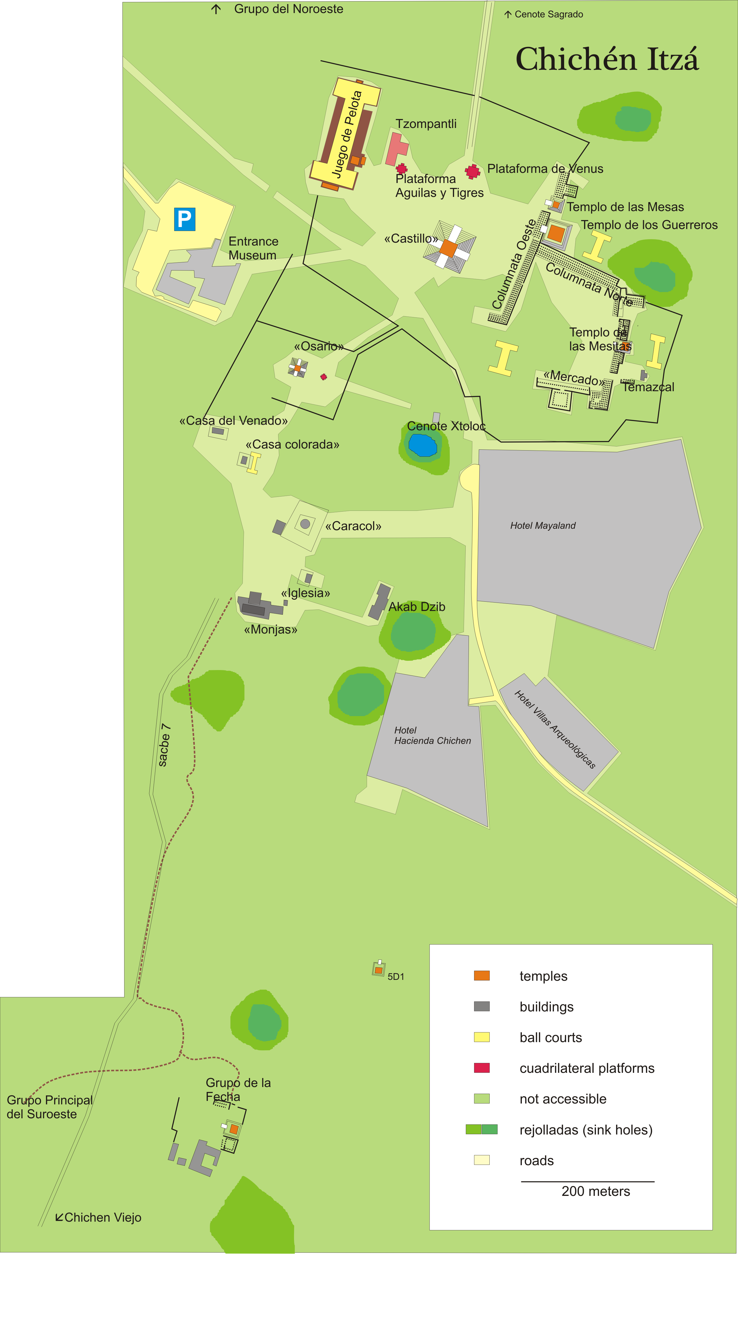 Chichen Itza, Yucatan, Mexico: plan of the ruins